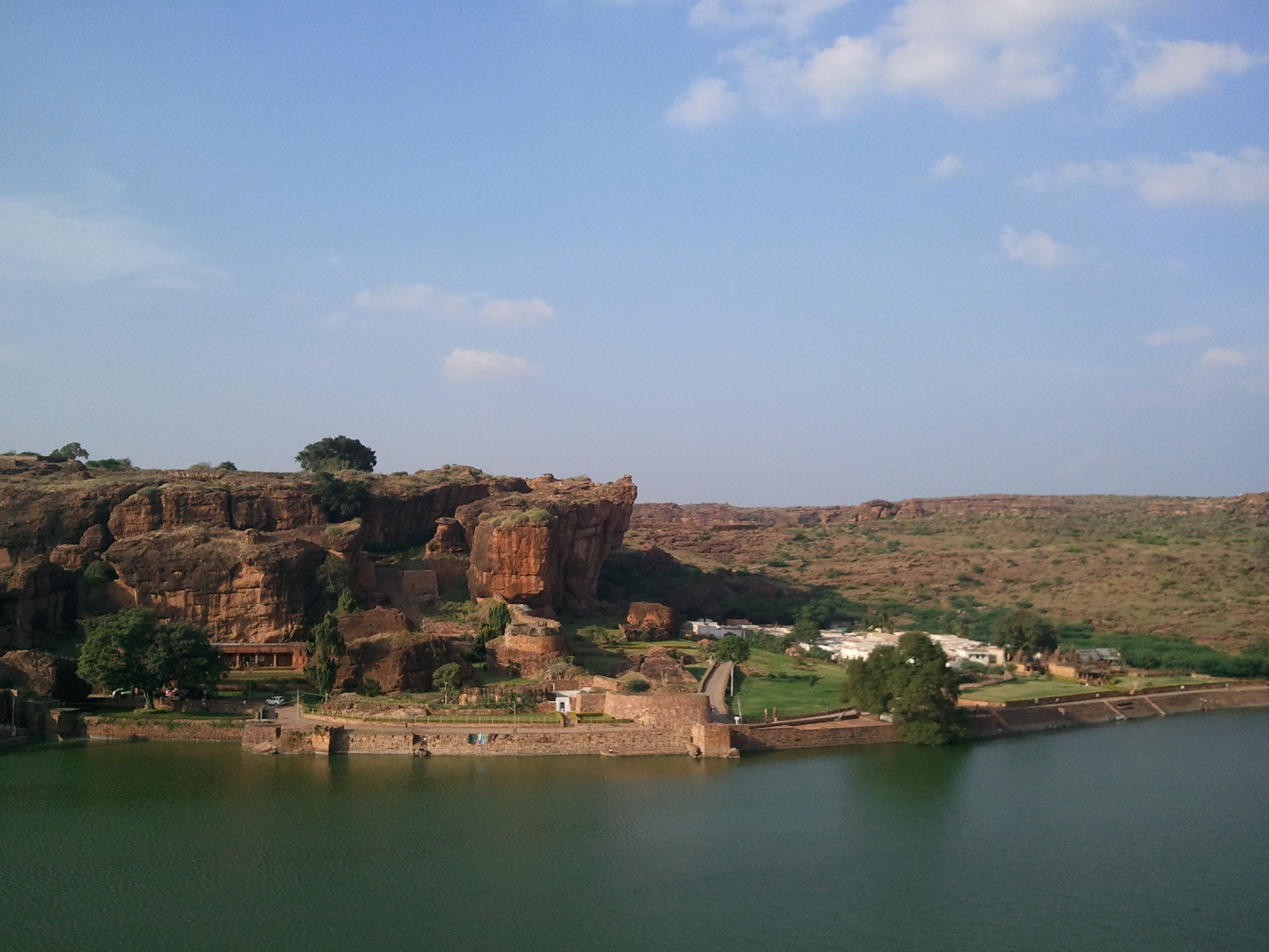 BADAMI